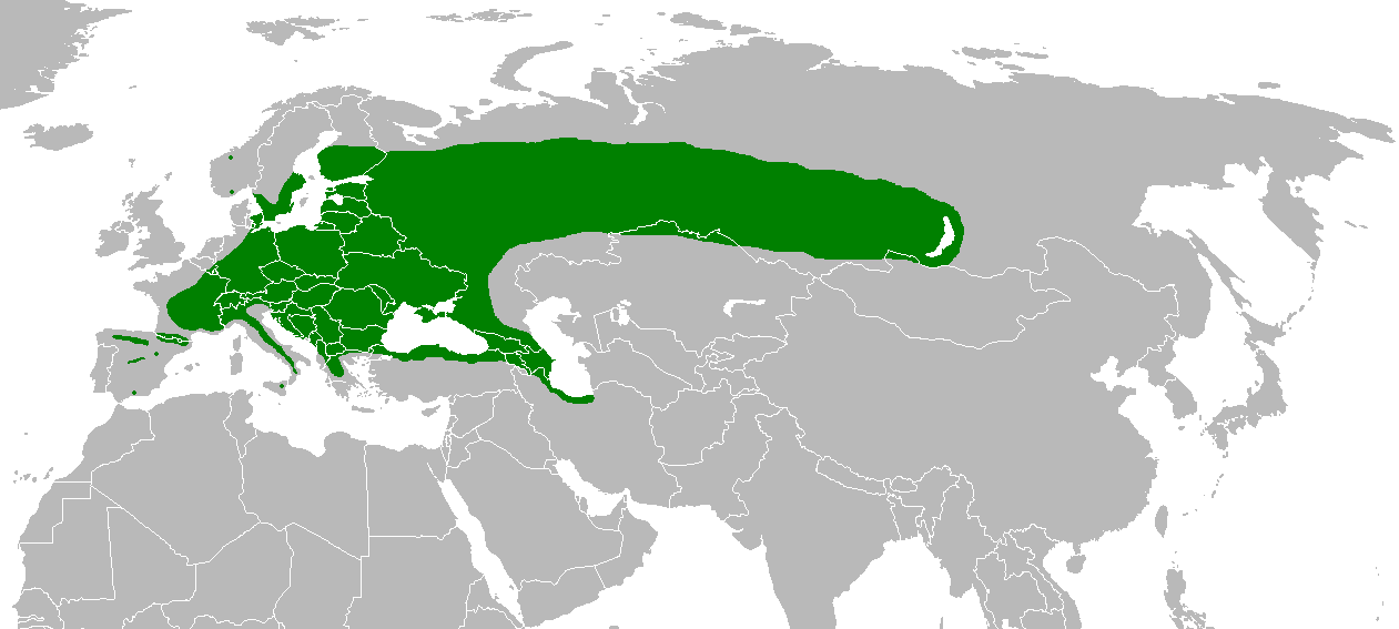 Range of Oedemera femorata (Coleoptera: Oedemeridae)